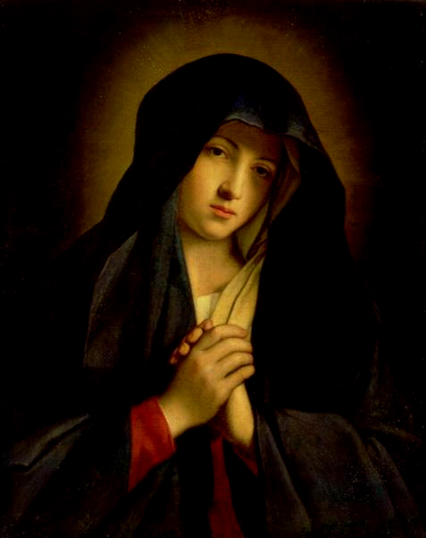 The mowa in Sorrow